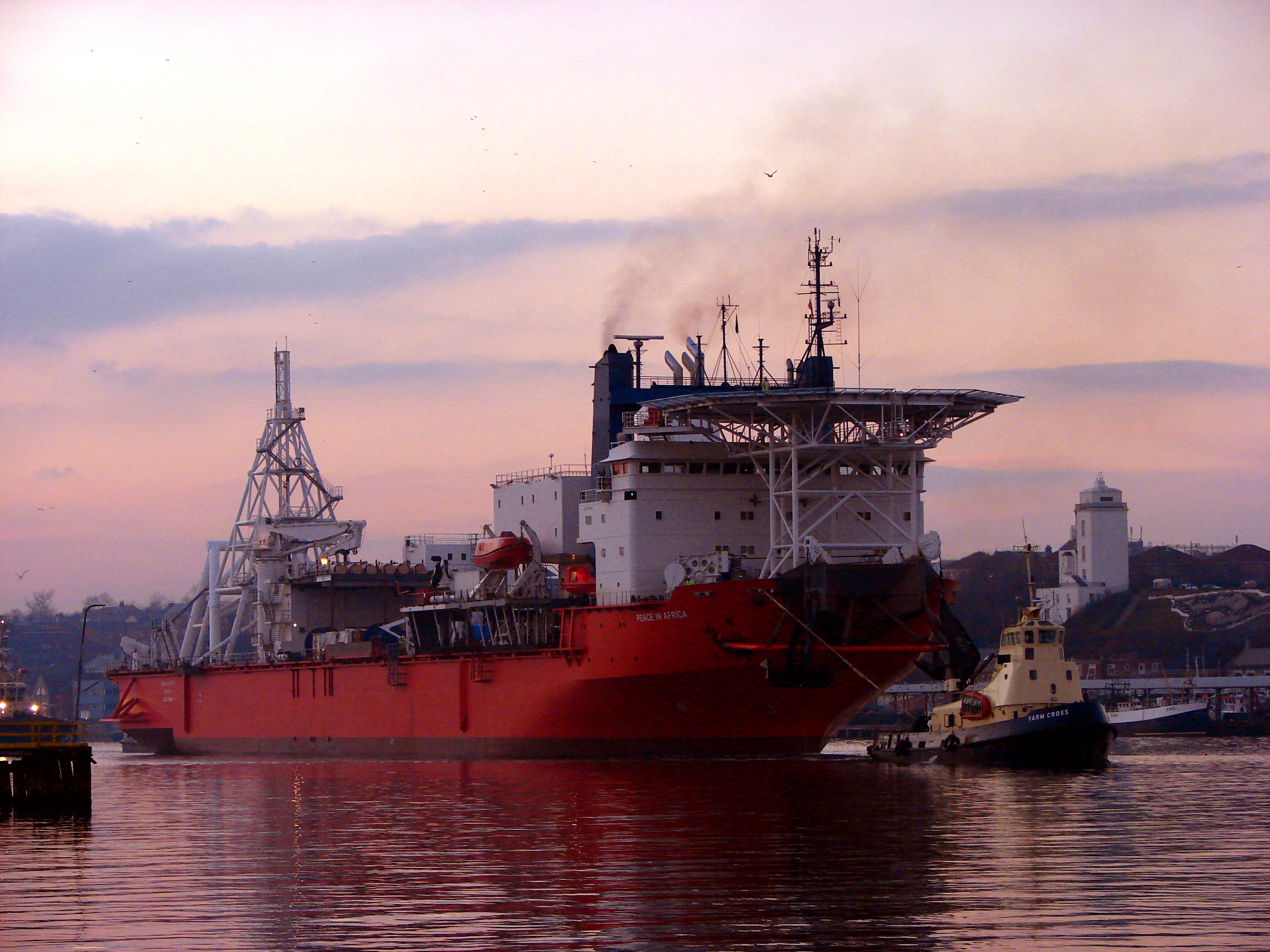 This ship was a major ship conversion project for DeBeers the diamond people and was carried out on the Tyne.